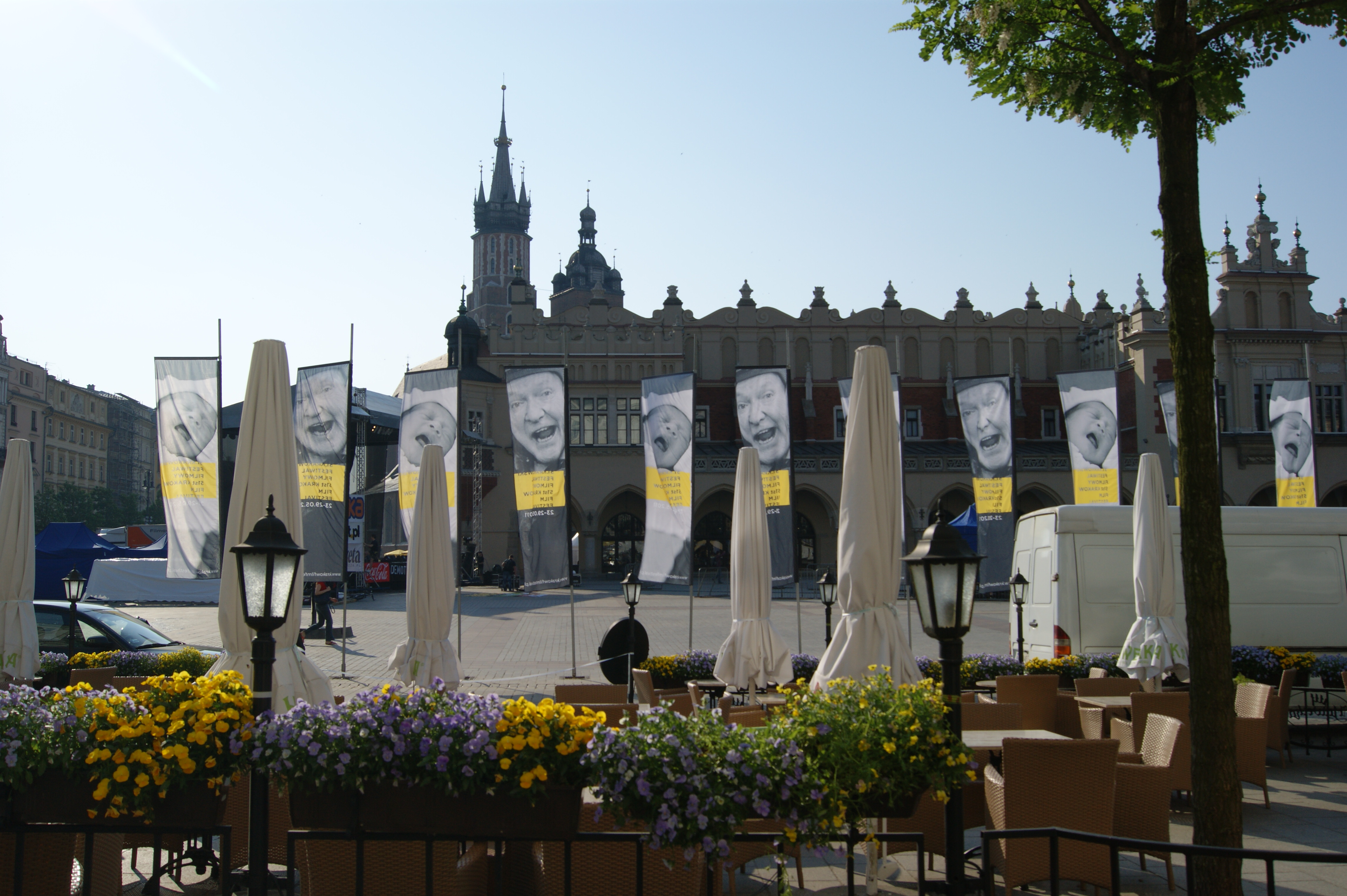 Krakow Film Festival 2011, banners, Main Market Square, Krakow, Poland